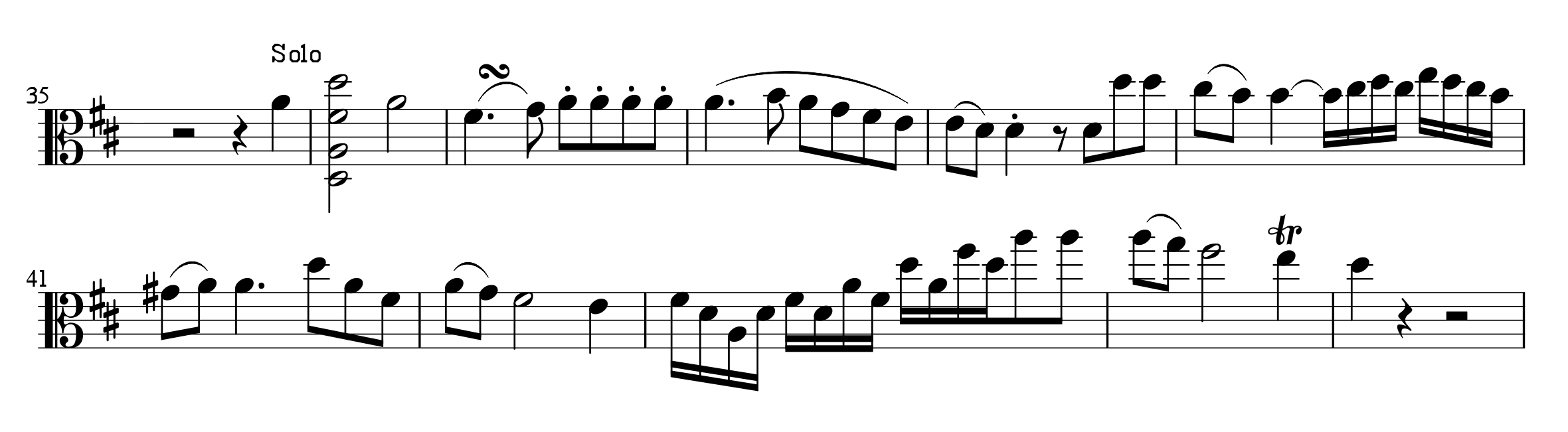 First theme in the viola solo. From Hoffmeister's viola concerto in D.